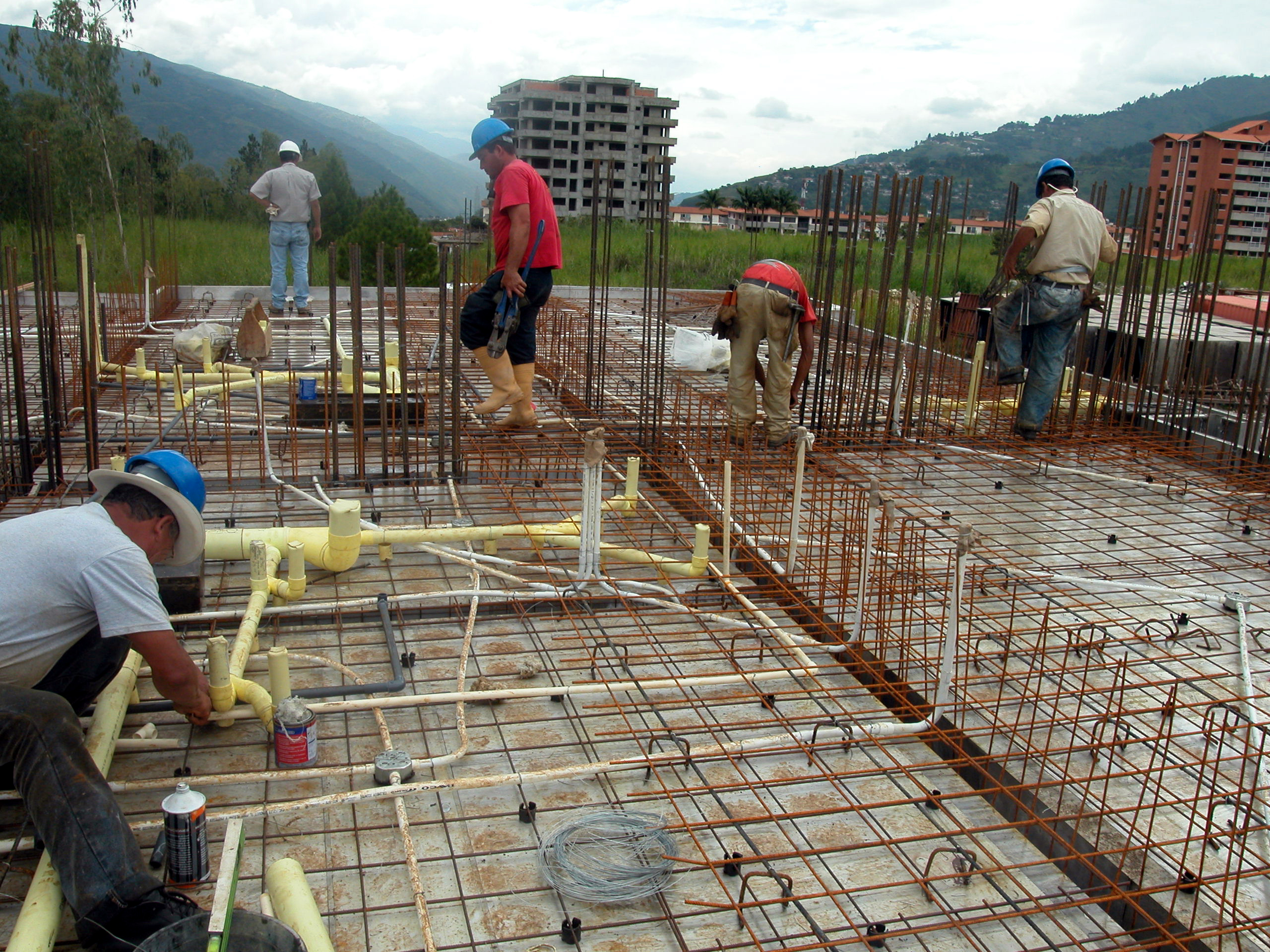 High rise housing construction in Venezuela using aluminum concrete formwork